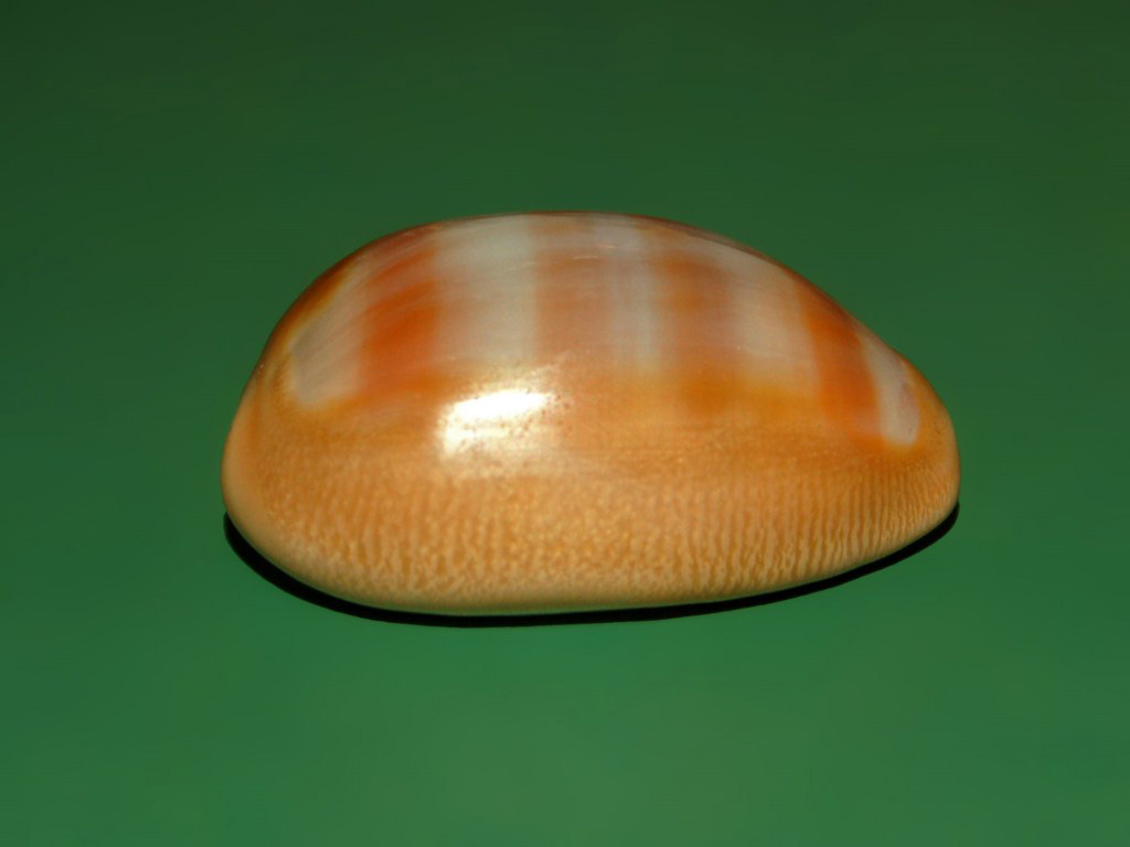 Lyncina schilderorum - Hawaii